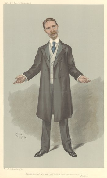 Caricature of Mr A Bonar Law MP. Caption read "A gentle shepherd who would lead his flock in to the protectionist fold".